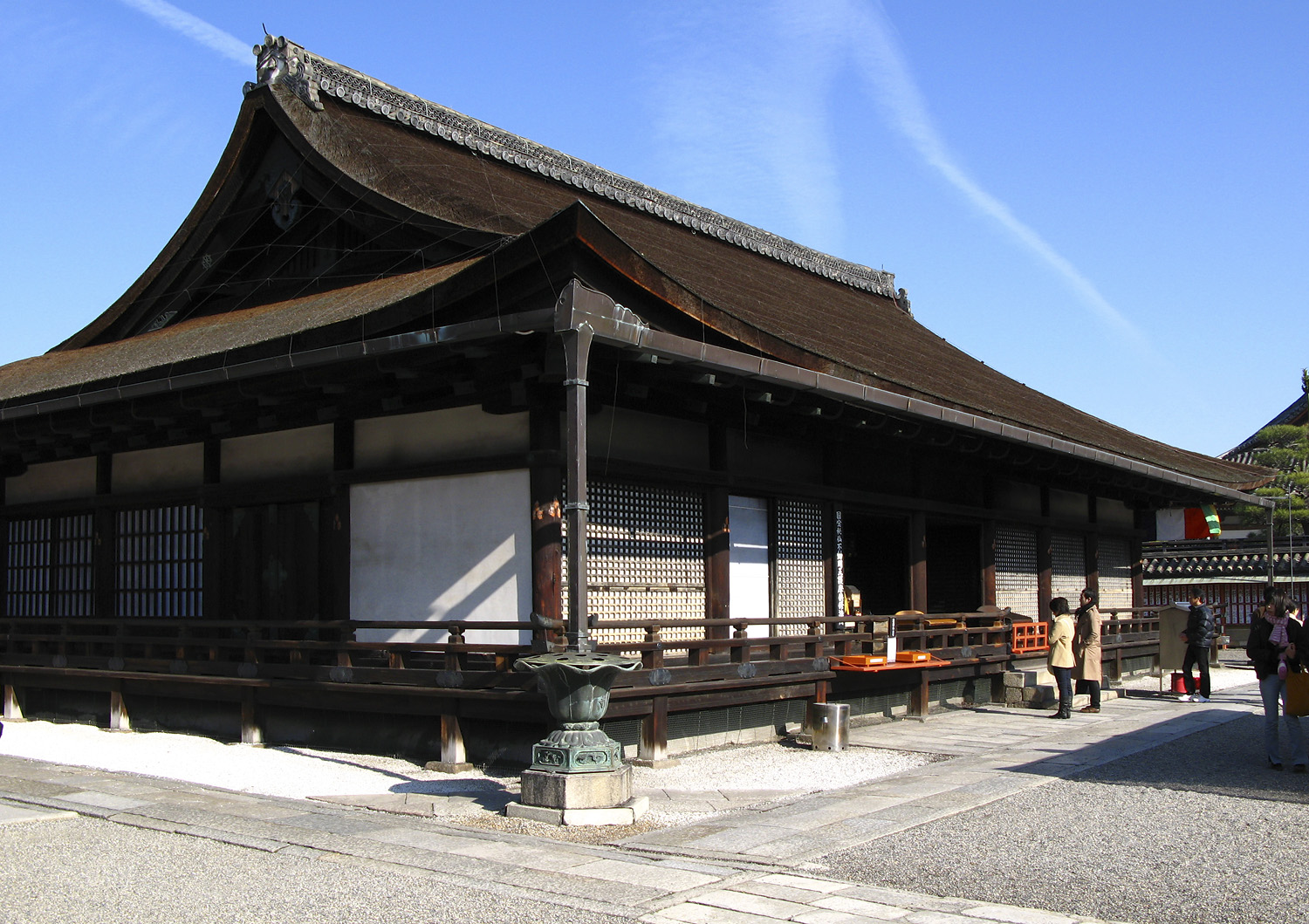 This building is the Mieidō at Tō-ji, an ancient Buddhist temple in Kyoto, Japan. I took the photo and contribute my rights in the file to the public domain; individuals and organizations retain rights to images in it.